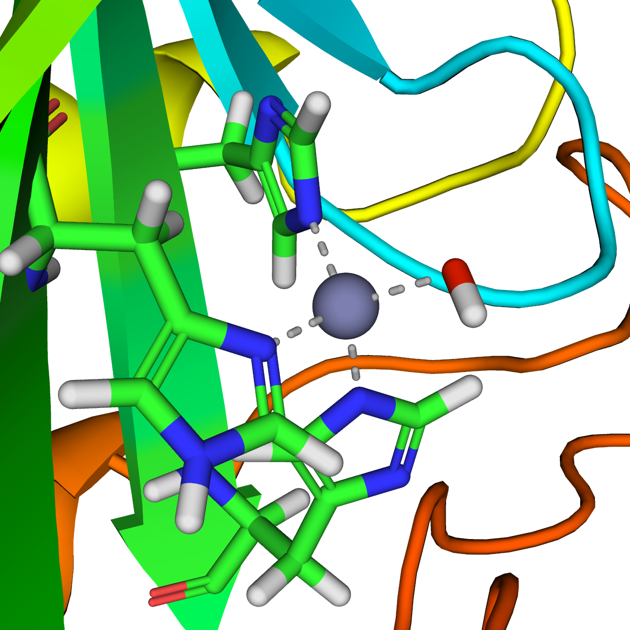 Closeup of active site of human carbonic anhydrase II, showing three histidine residues and hydroxide (red and white) coordinating zinc (gray). Created using PyMOL ( and GIMP. Legend Zinc ion